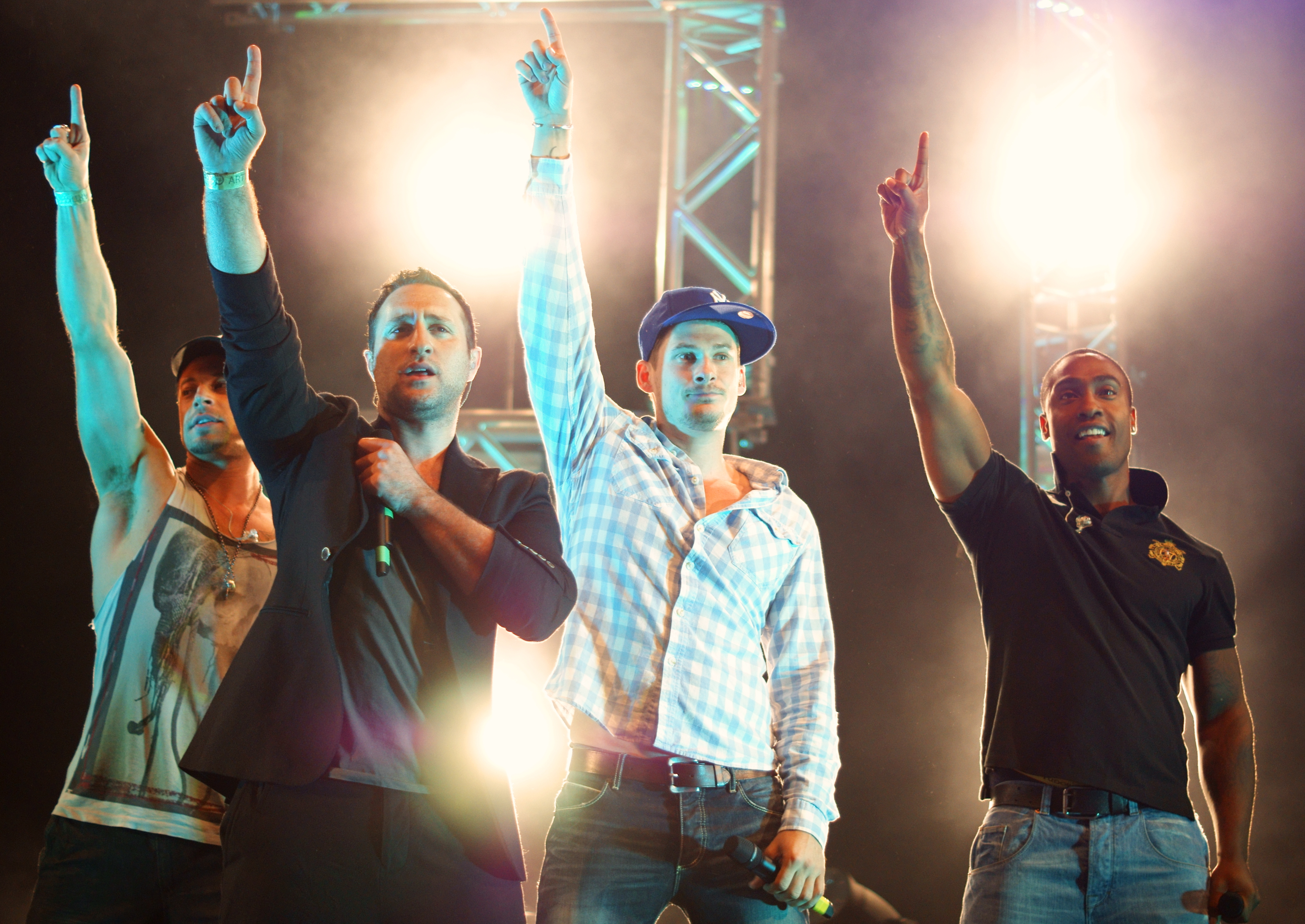 Blue performing at Manchester Pride on Monday the 29th of August 2011